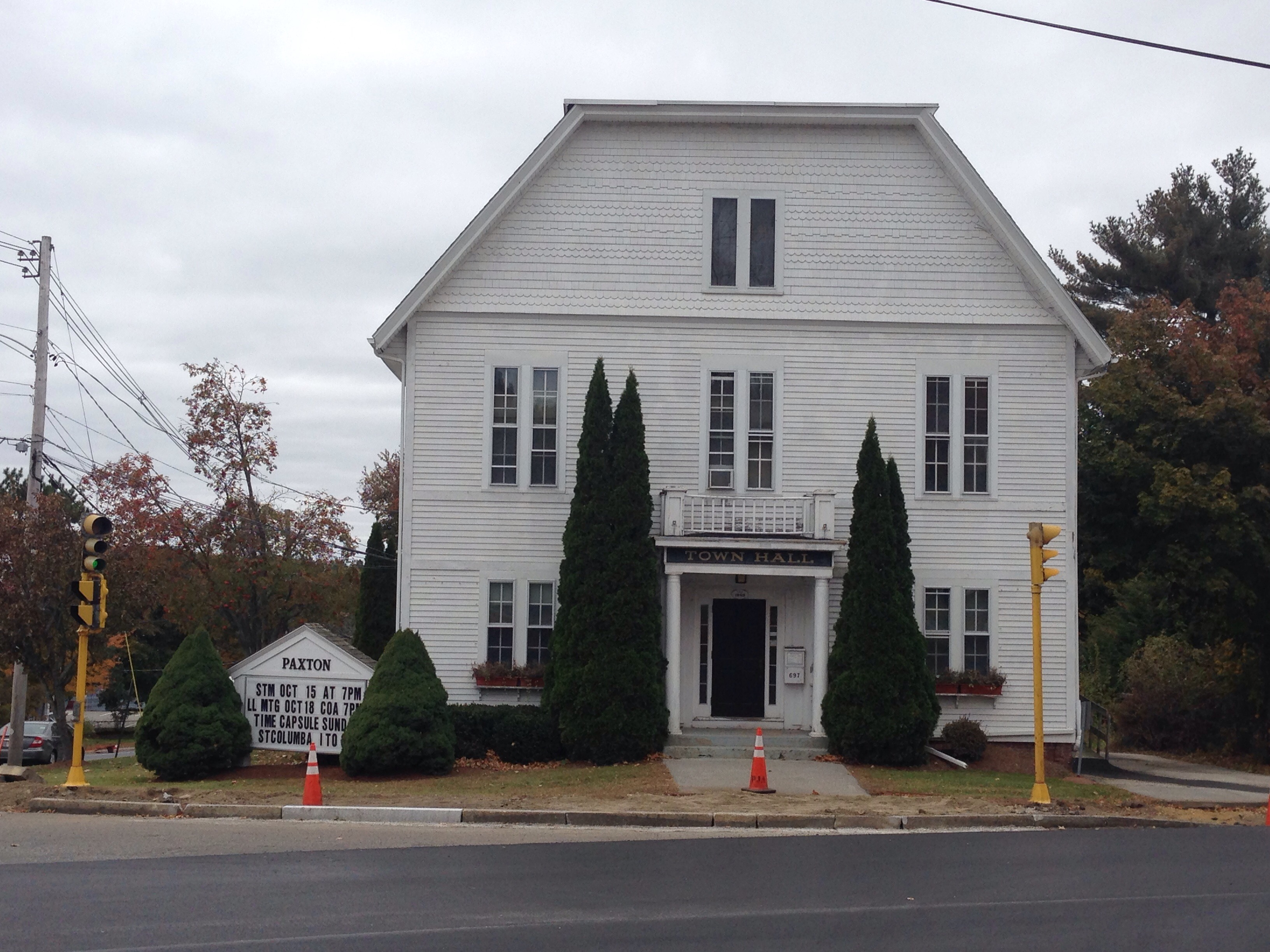 Paxton mass town hall